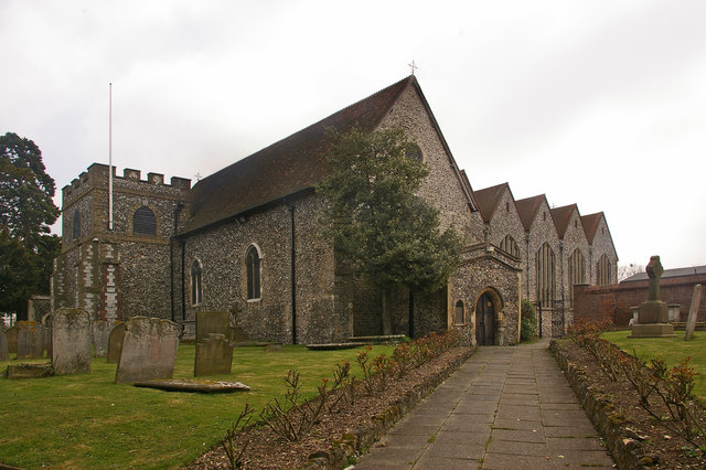 All Saints Church This Grade B listed church originally dates from the 12th century, although there are indications of an earlier building here. A tower was added in the 13th century and a porch in the 14th century. For many years it had a taller tower, but this was severely damaged by a storm in 1771, and the subsequent rebuilding was of this shorter castellated version, topped with a steeple. However in 1809 the steeple was struck by lightning and caught fire. It was not replaced, resulting in the present profile of a tower shorter than the surrounding roof. In 1957, following demolition of Bark Hart House, a Tudor house to the south of the church where Elizabeth I had once stayed, the church was extended over part of the vacated land (the extension can be seen to the right of the photo). For listing particulars